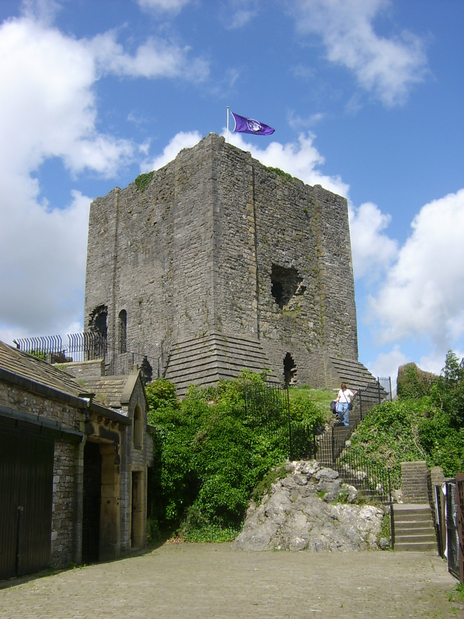 A photograph of Clitheroe Castle taken on the 6th August 2007